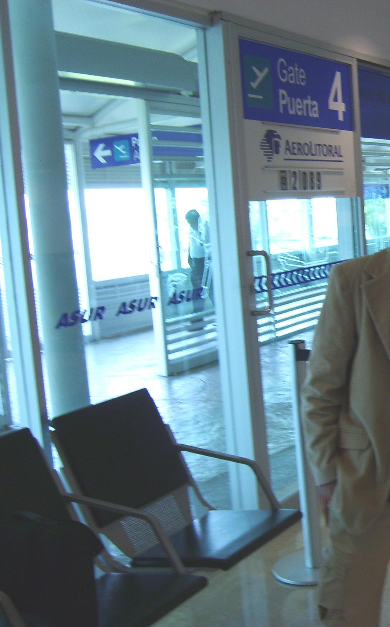 Veracruz International Airport